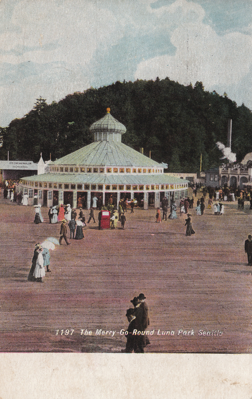 The Zeum Carousel at Luna Park, Seattle. The carousel was originally intended for San Francisco, but ended up in Seattle after the 1906 San Francisco earthquake. When Luna Park closed, it moved to several other locations, finally ending up back in San Francisco, where it is now part of Yerba Buena Gardens.